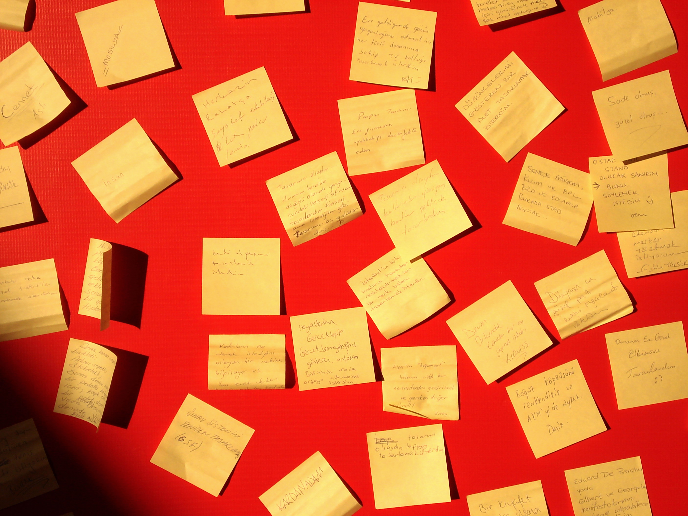 Wall with post-its